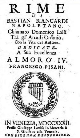 Title page of Rime di Bastian Biancardi napoletano chiamato Domenico Lalli tra gl'Arcadi Ortanio. Con la vita del auttore